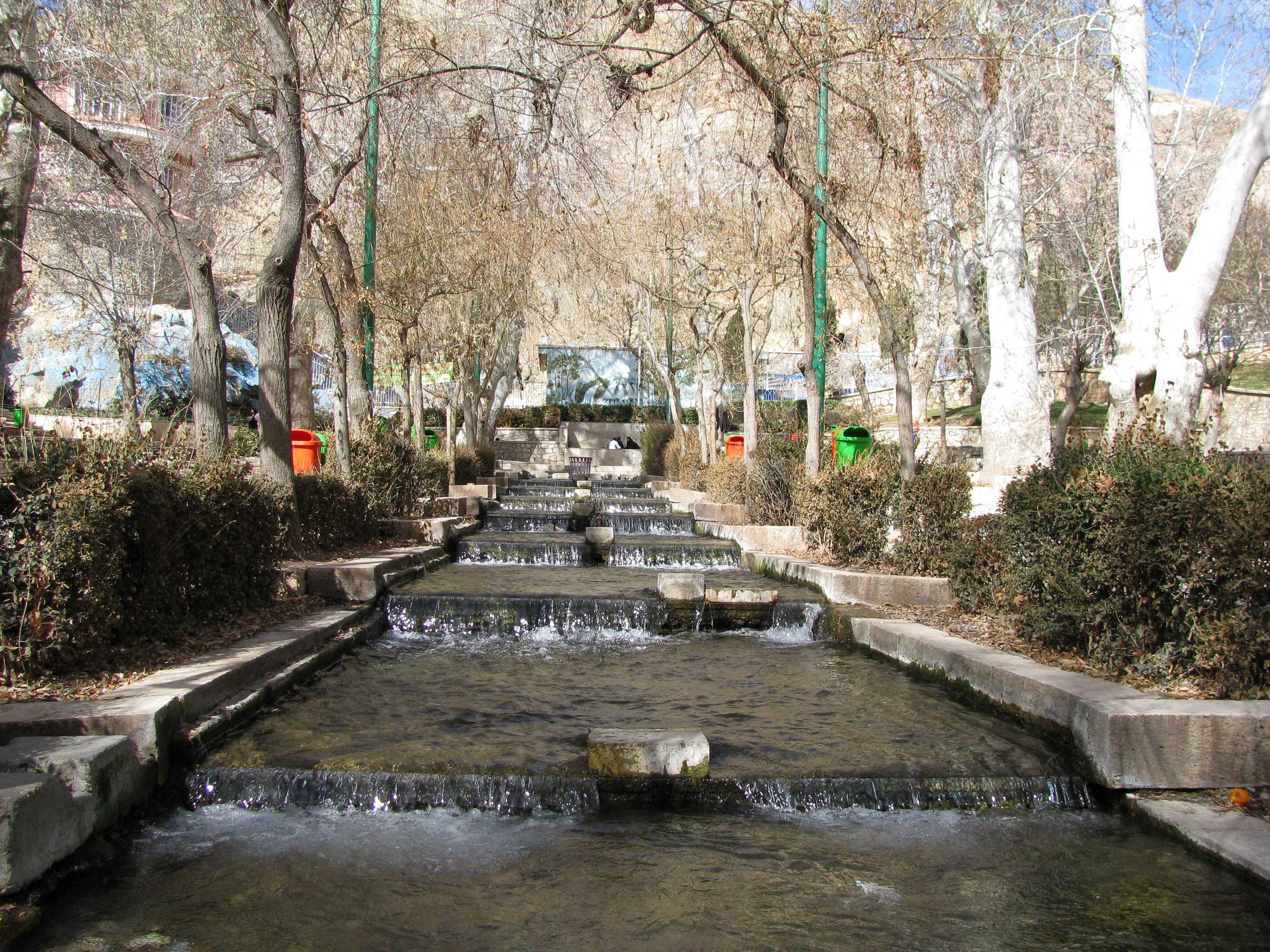 Sarcheshmeh park is biggest park in Mhallat.